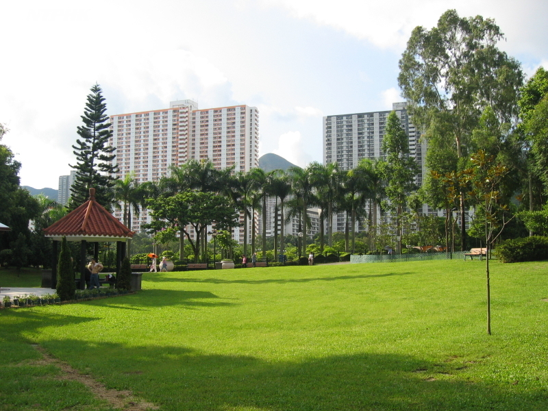 Shatin Park Grass